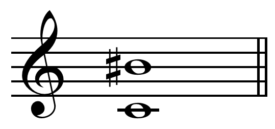 Augmented seventh on C = B♯. Just: 125:64 = 1158.94 cents. Equal-tempered: 212/12:1 = 1200 cents.